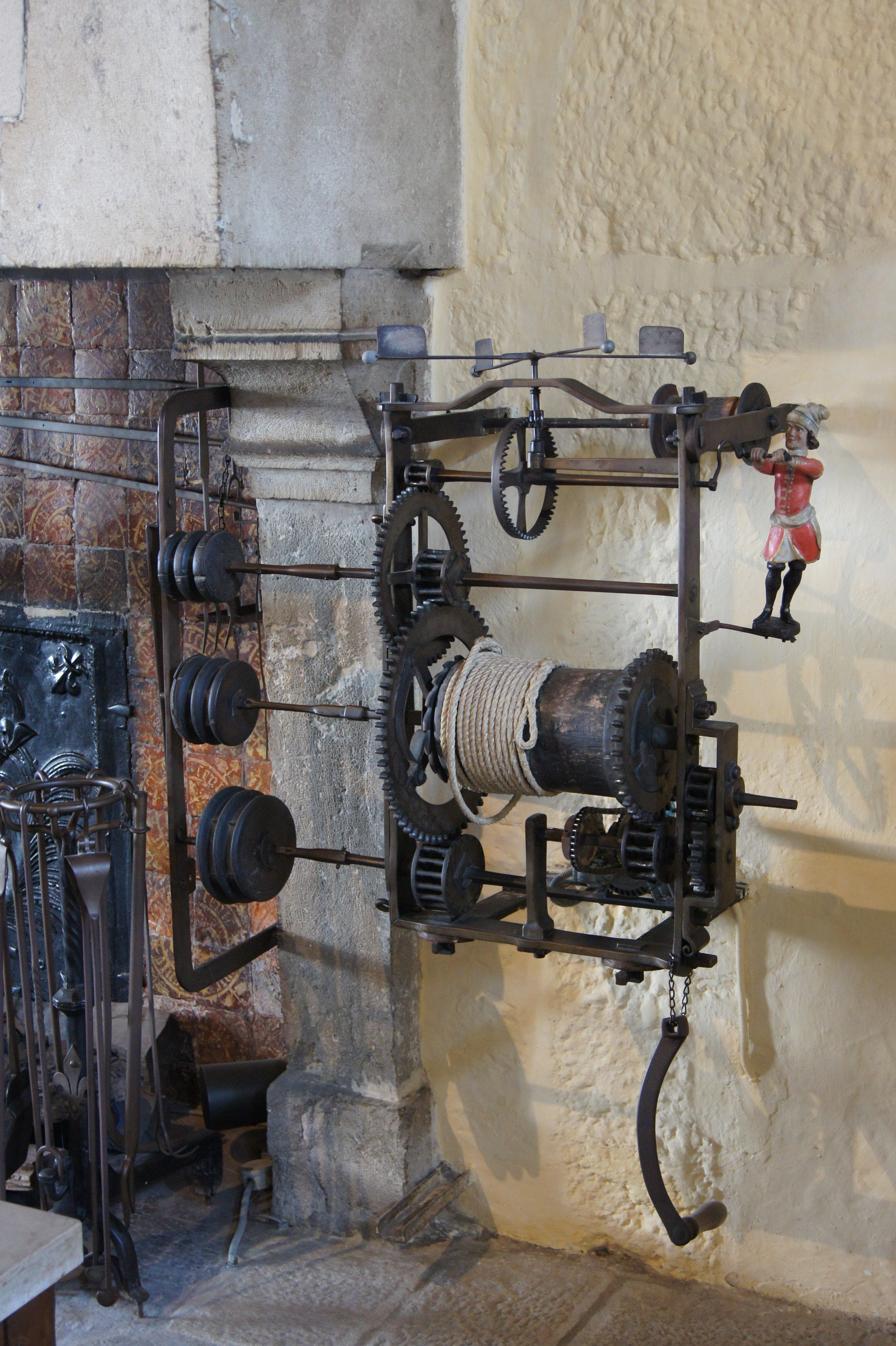 rotative kitchen spit in Hôtel-Dieu de Beaune, France